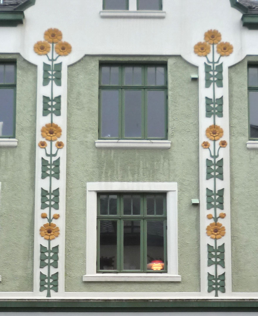 Kongensgate 12, Ålesund.